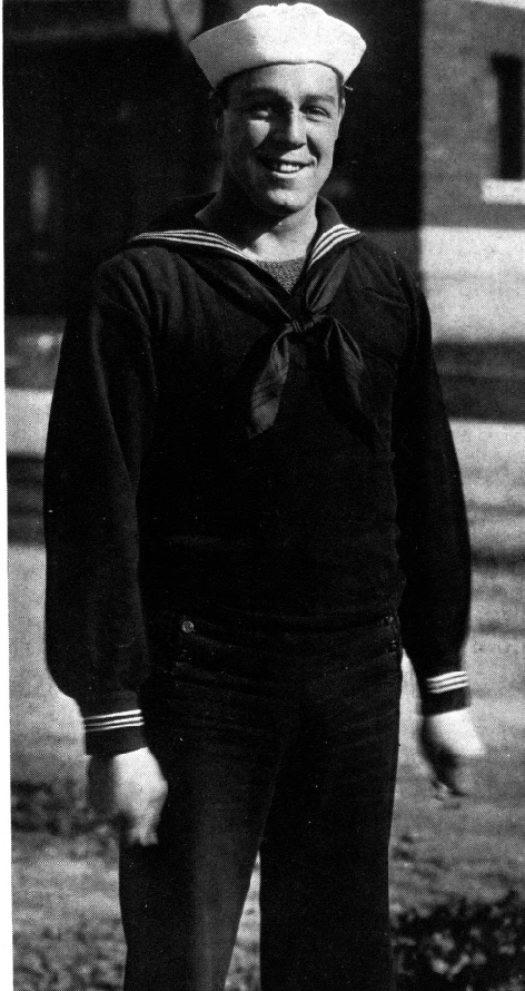 Photograph of Cedric C. Smith, 1917